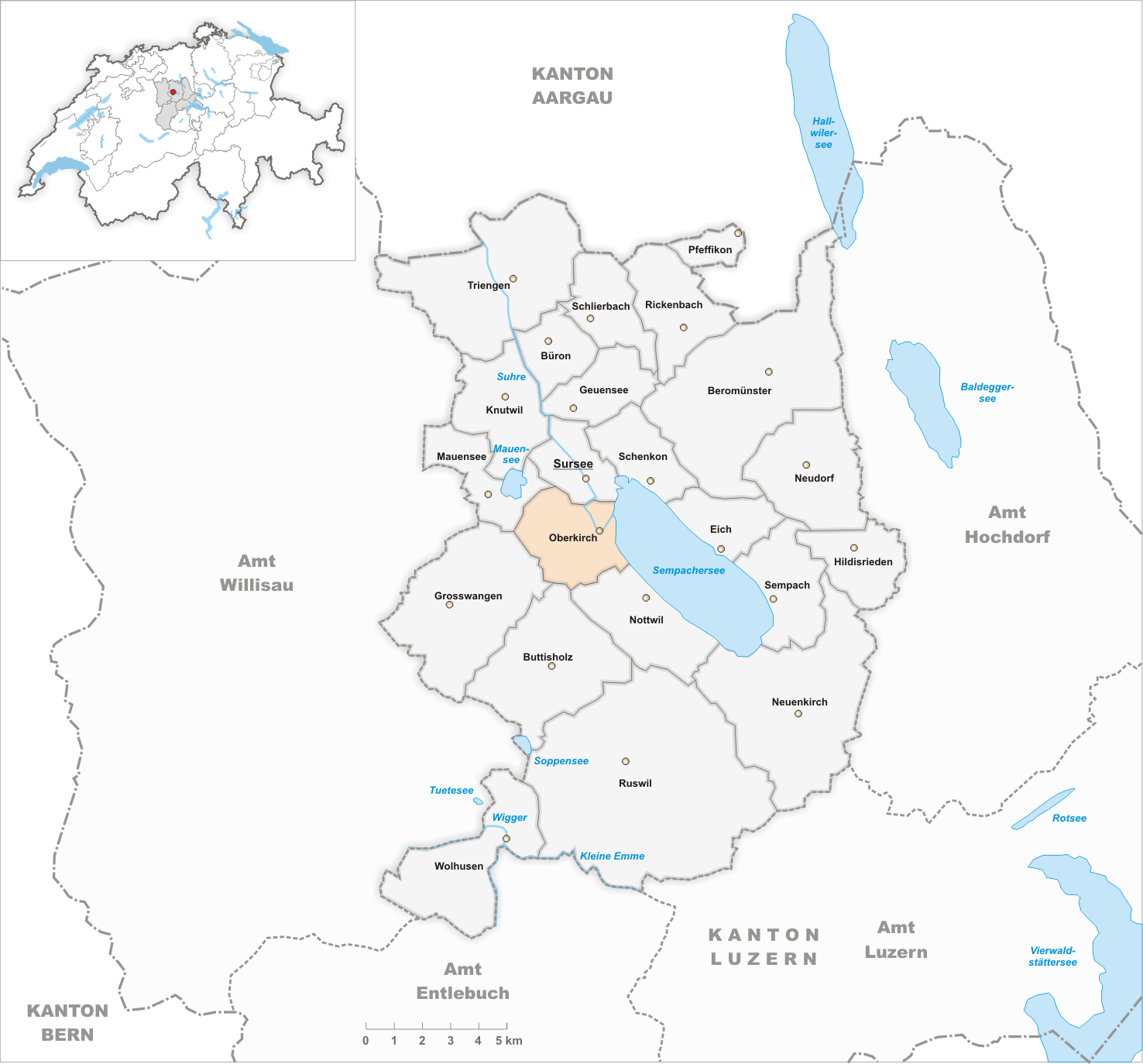 Municipality Oberkirch